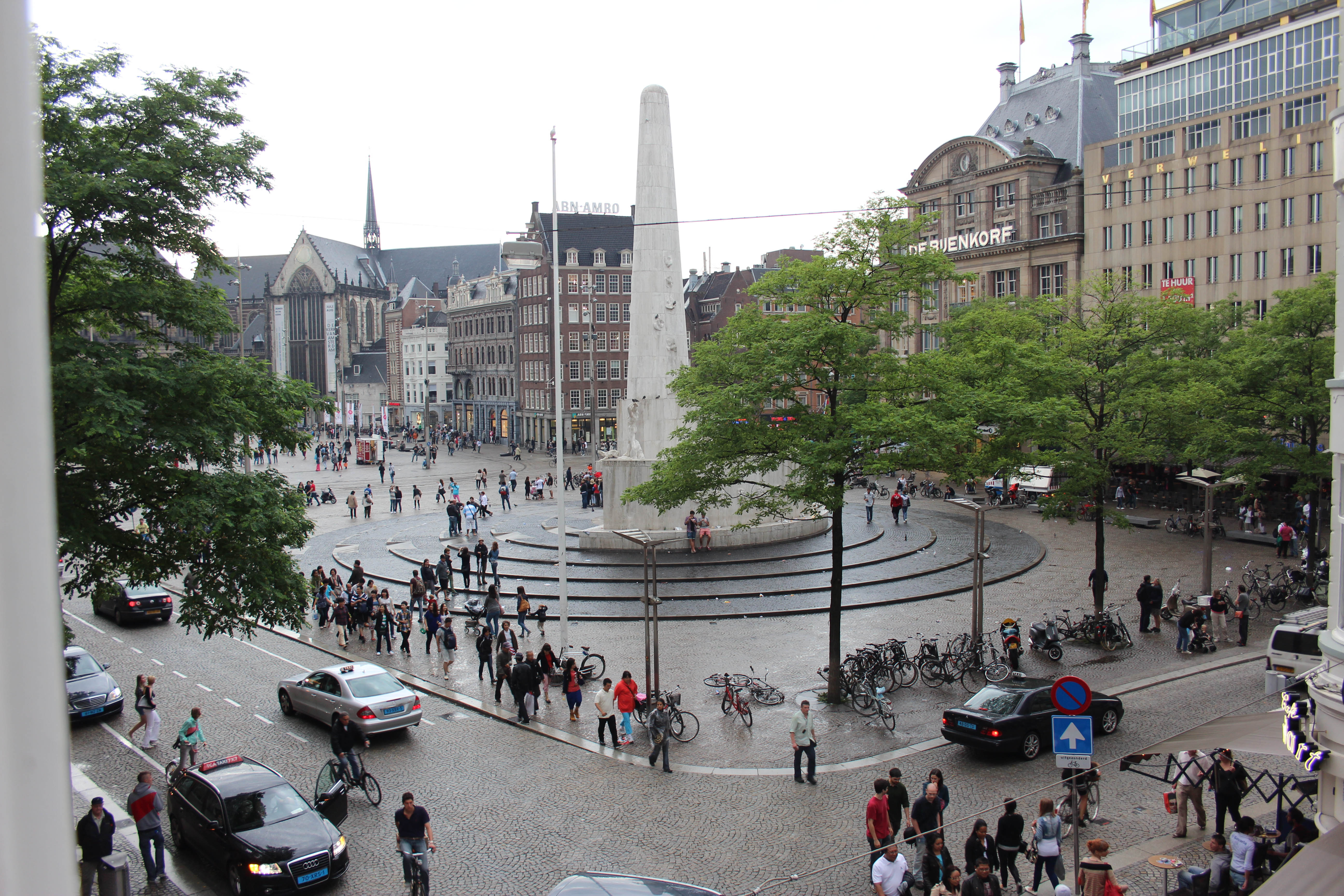 Photo by Marcia Stubbeman, 5221 Dunewood Way, Avon, IN 46123 317-509-3788